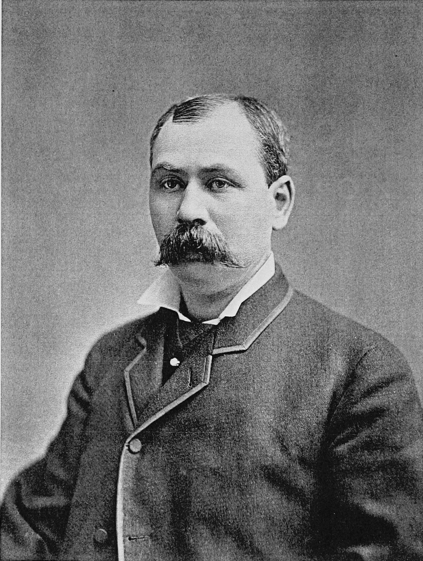 Thomas F. Byrnes (1842 - 1910), famed New York City detective.